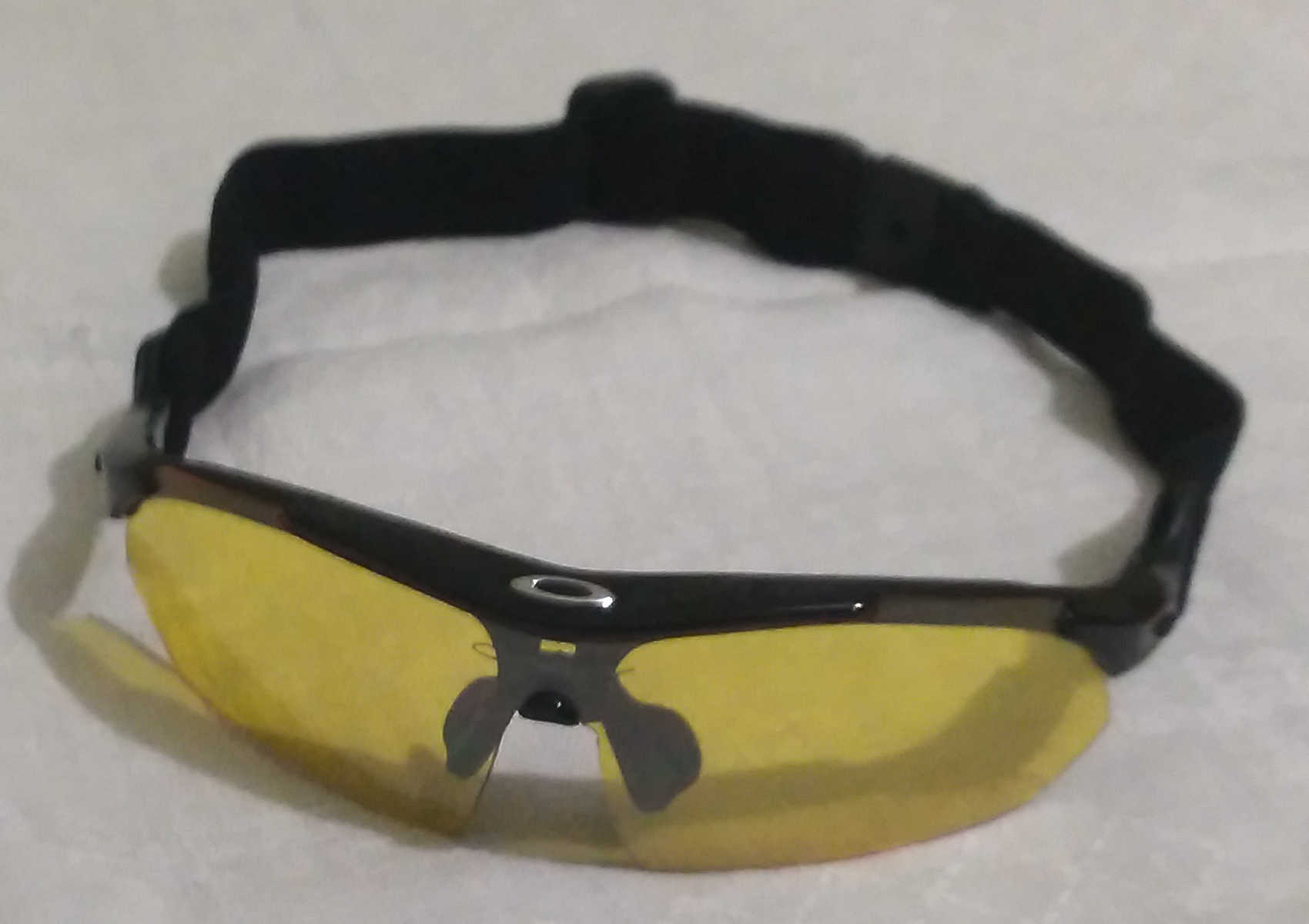 Ballistic eyewear